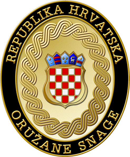 Seal of Armed Forces of Croatia